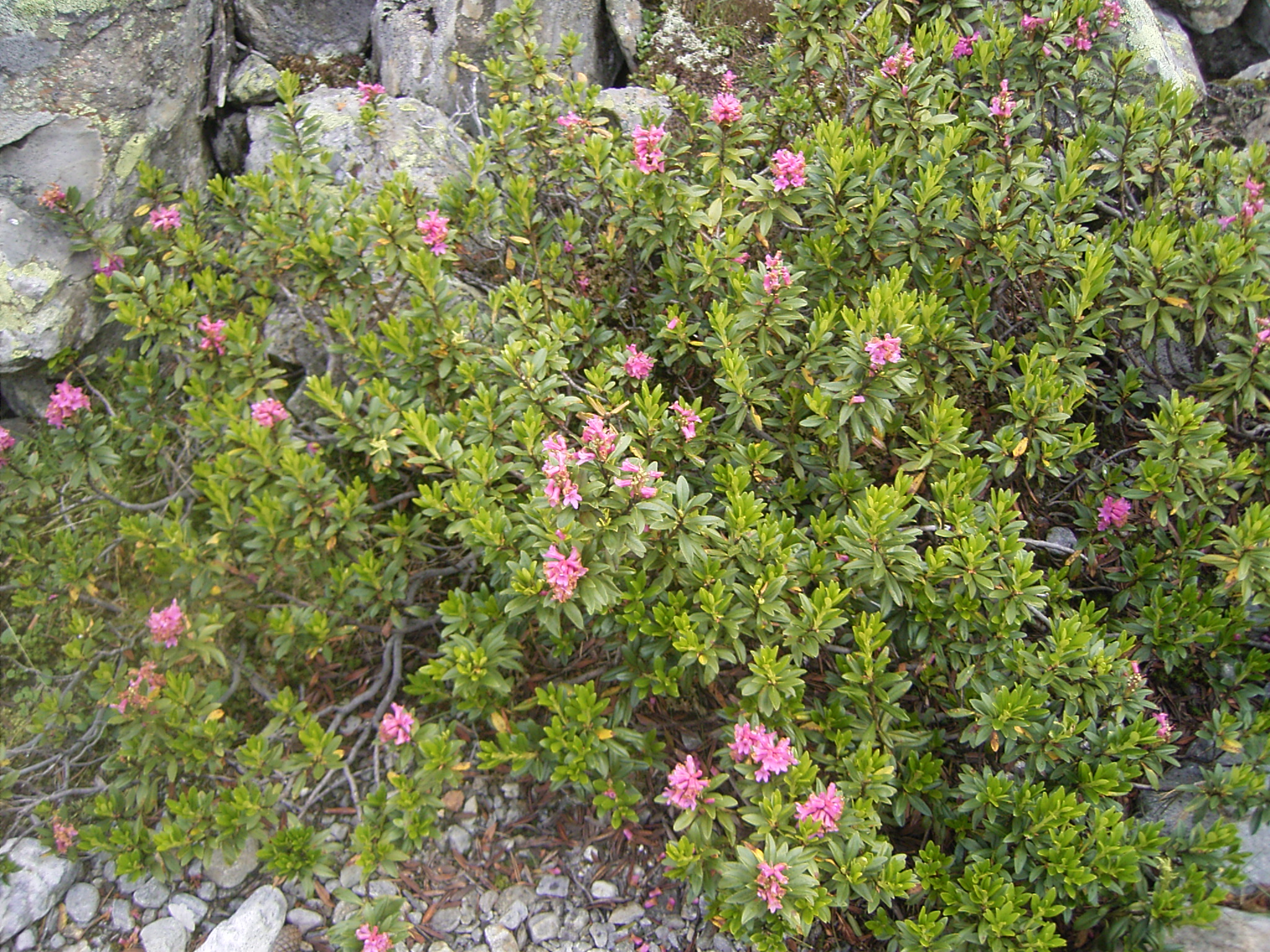 This photo shows Rhododendron ferrugineum